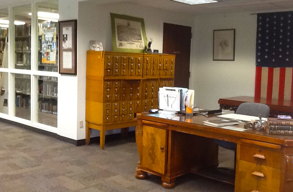 Photo of the Montana State University Library Burton K. Wheeler Reading Room in the Merrill G. Burlingame Special Collections showing part of the Trout and Salmonids Research Collection behind the window wall.